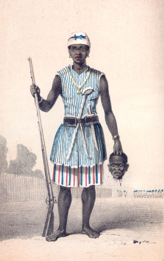 Seh-Dong-Hong-Beh, leader of the Dahomey Amazons, drawn by Frederick Forbes in 1851.